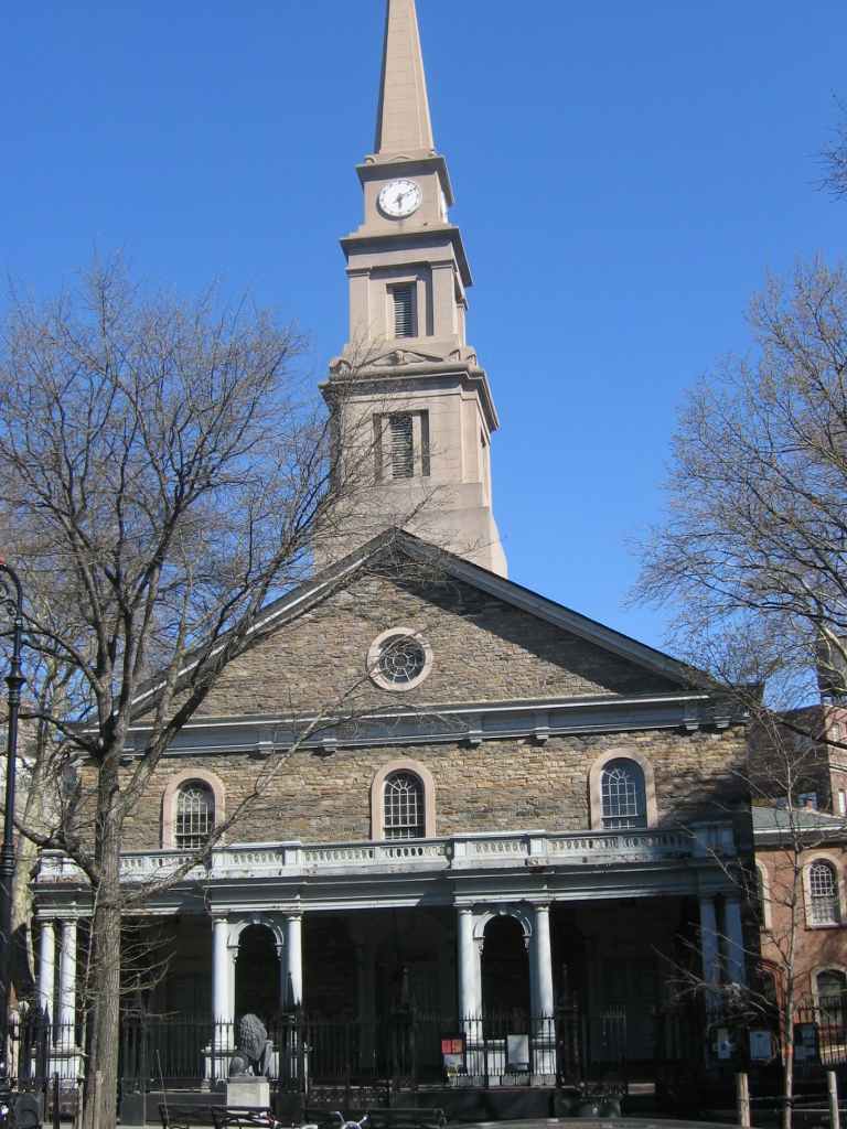 Saint-Mark-in-the-Bowery, East Village. Manhattan, NYC.